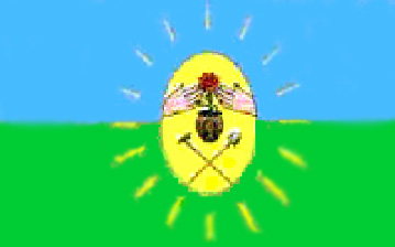 The municipal flag of Trinidad (Yaracuy),Venezuela